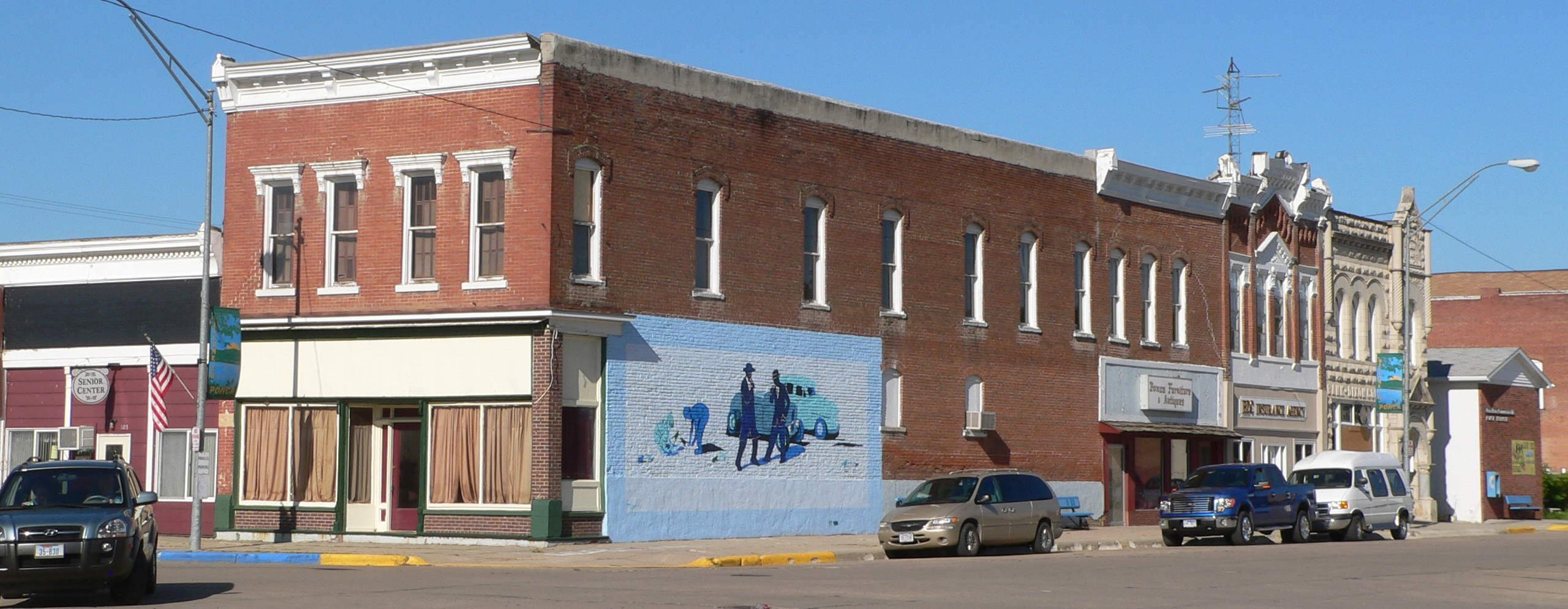 Southwest corner of 3rd and East Streets in Ponca, Nebraska. 3rd runs east-west; East runs north-south. This block of 3rd is part of the Ponca Historic District, which is listed in the National Register of Historic Places.